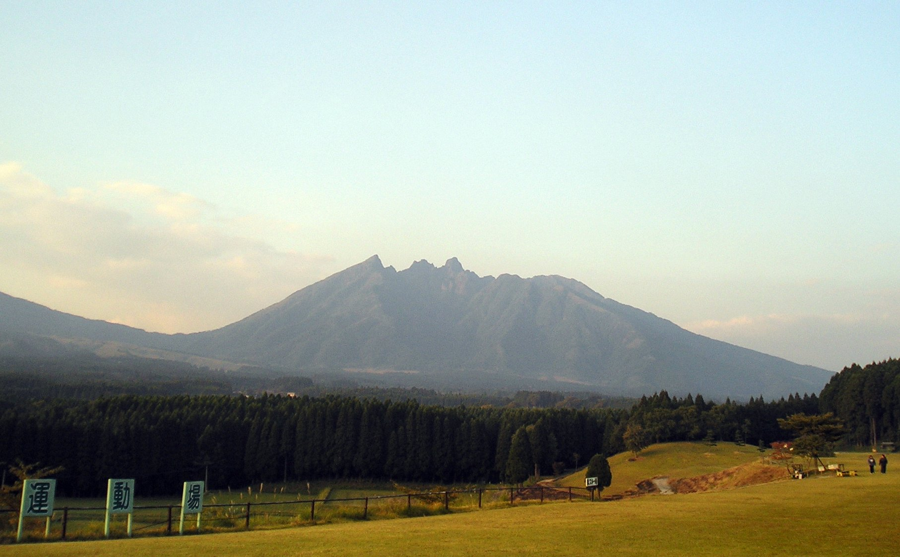 Distant view of Mount Neko (Neko-dake) in Takamori Town, Kumamoto Prefecture, Japan